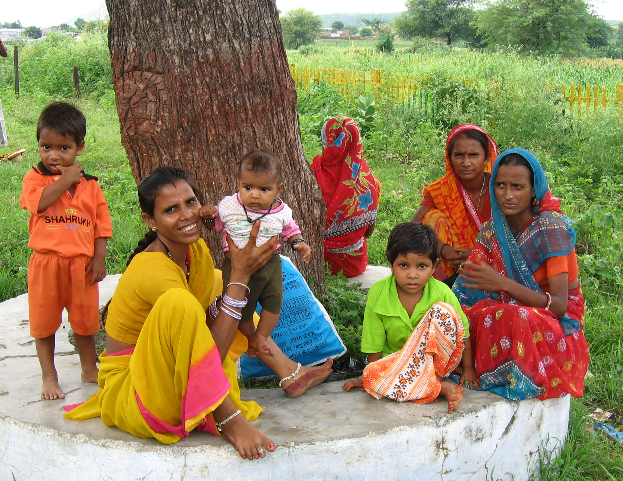 Rawanjana Dungar Railway Station, scenes. Rajastan